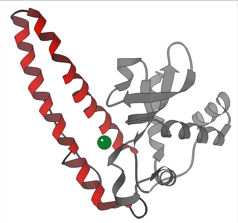 Ribbon schematic highlighting the first domain (helix hairpin) of the human mitochondrial Mn superoxide dismutase (SOD2) subunit. The Mn is in dark green and domain2 is in gray. Made in KiNG from PDB 1n0j.